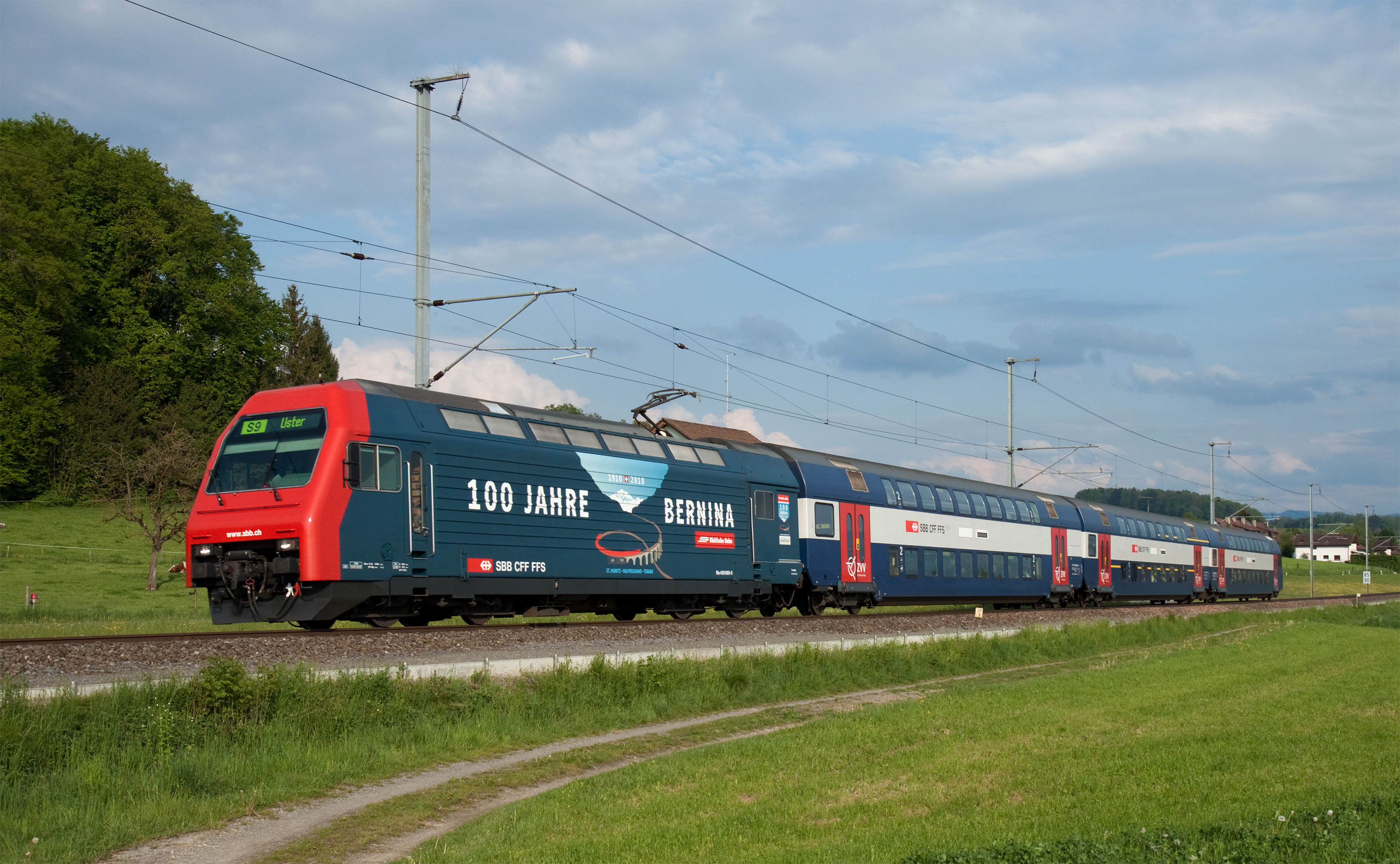 SBB Re 450 060 carrying advertisement for the 100 years Bernina line jubilee